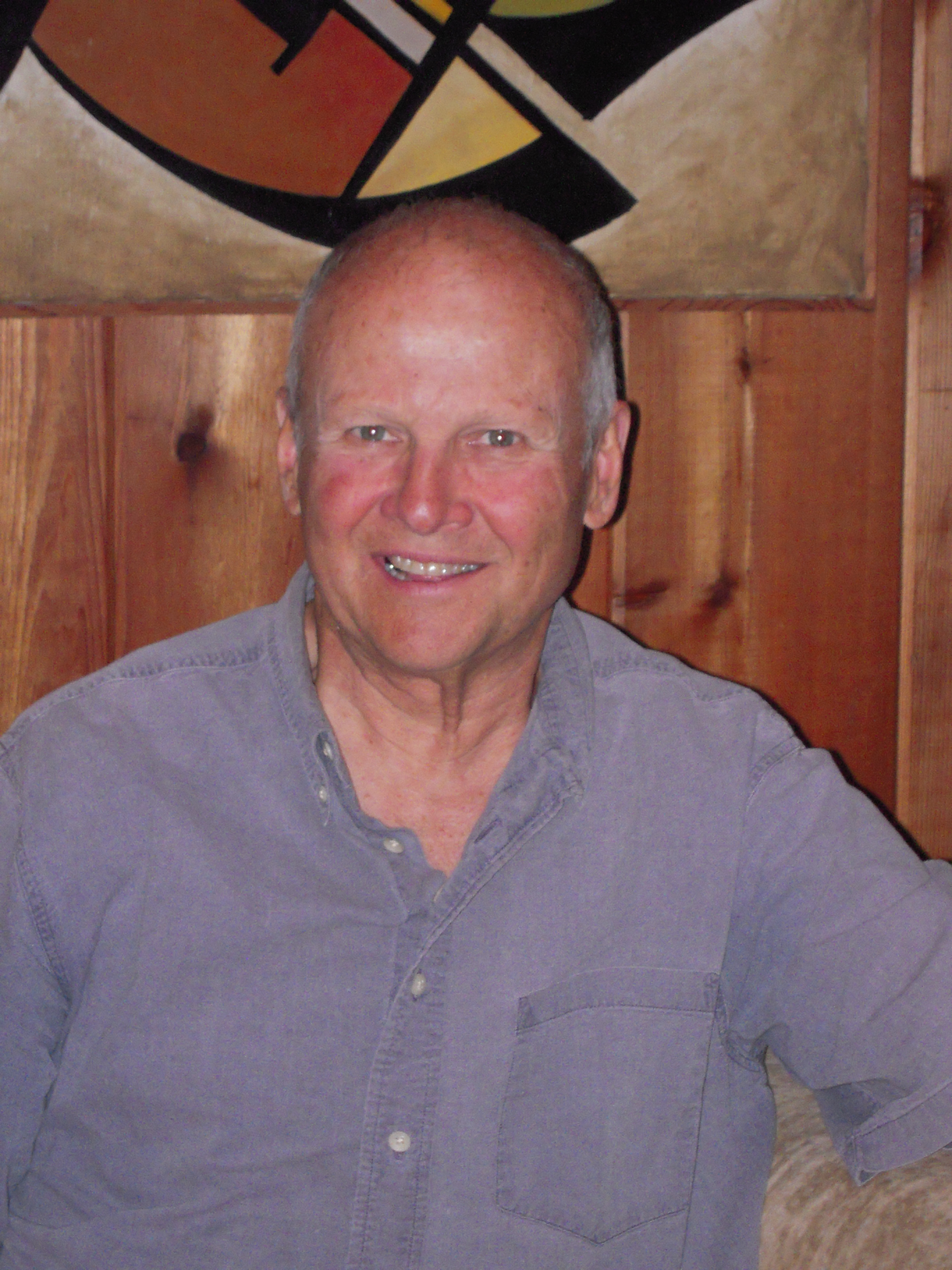 Portrait of Peter Behn taken in the home of his brother Pres Behn.